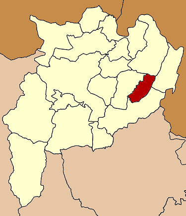 Map of the Chiang Rai province, Thailand, highlighting the Khun Tan district.